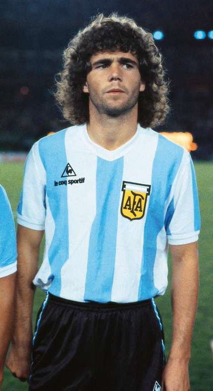 Alberto Tarantini playing for the Argentina national team.